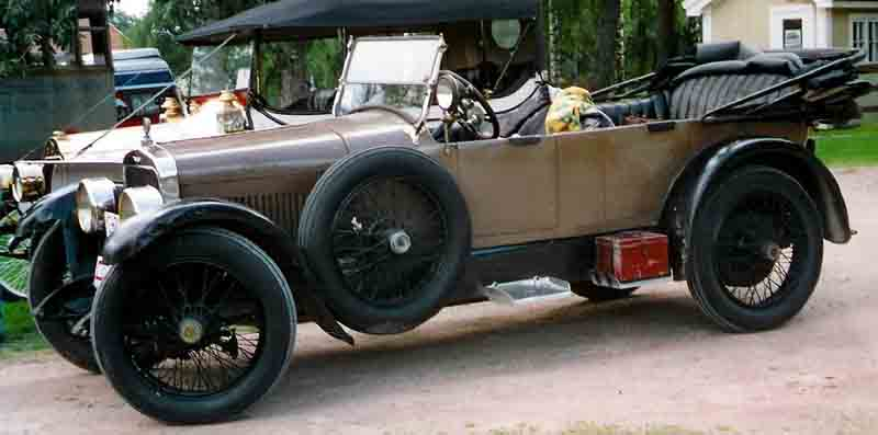 H.C.S. Series IV Model 4 Touring 1923